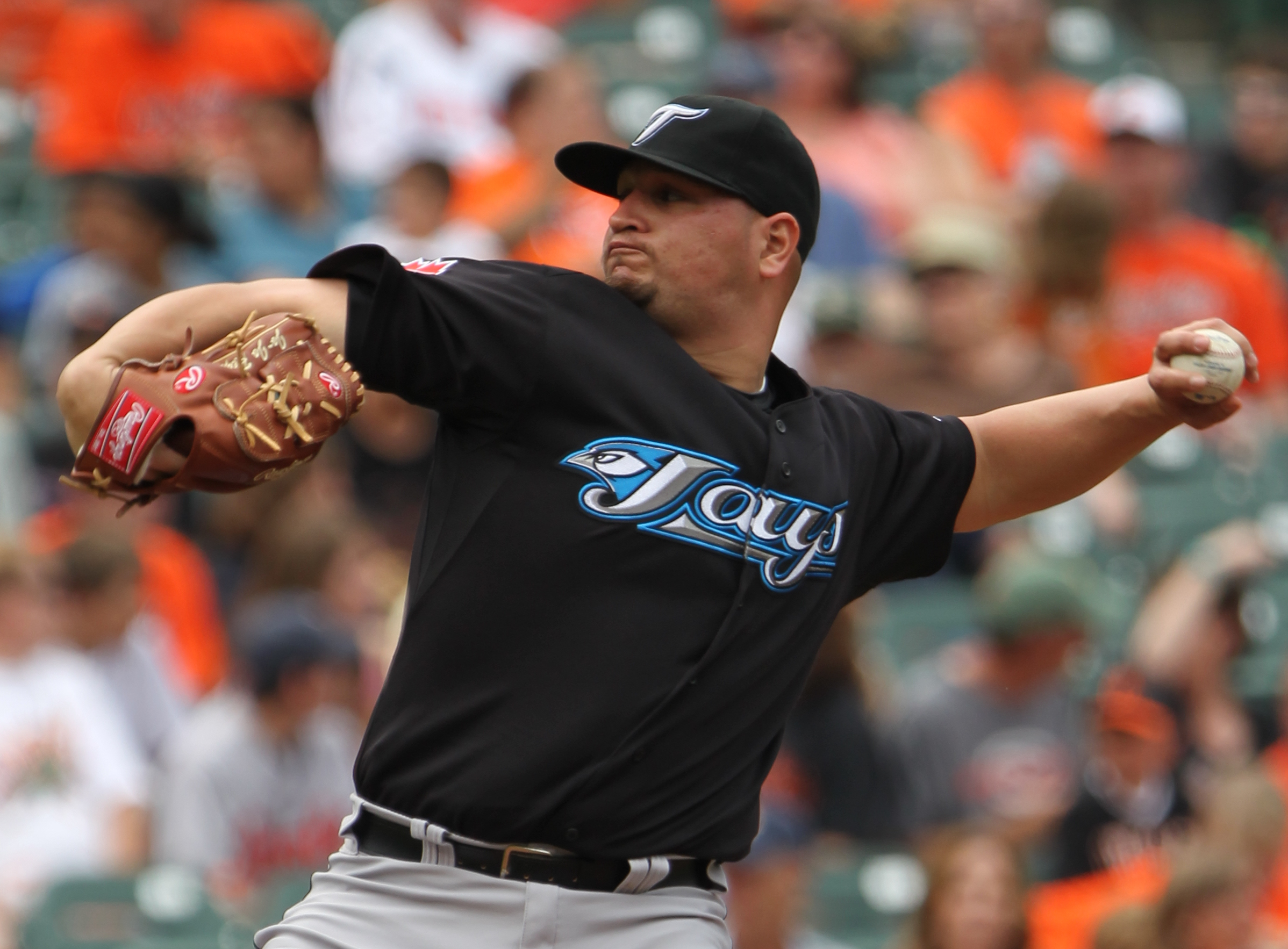 Jo-Jo Reyes